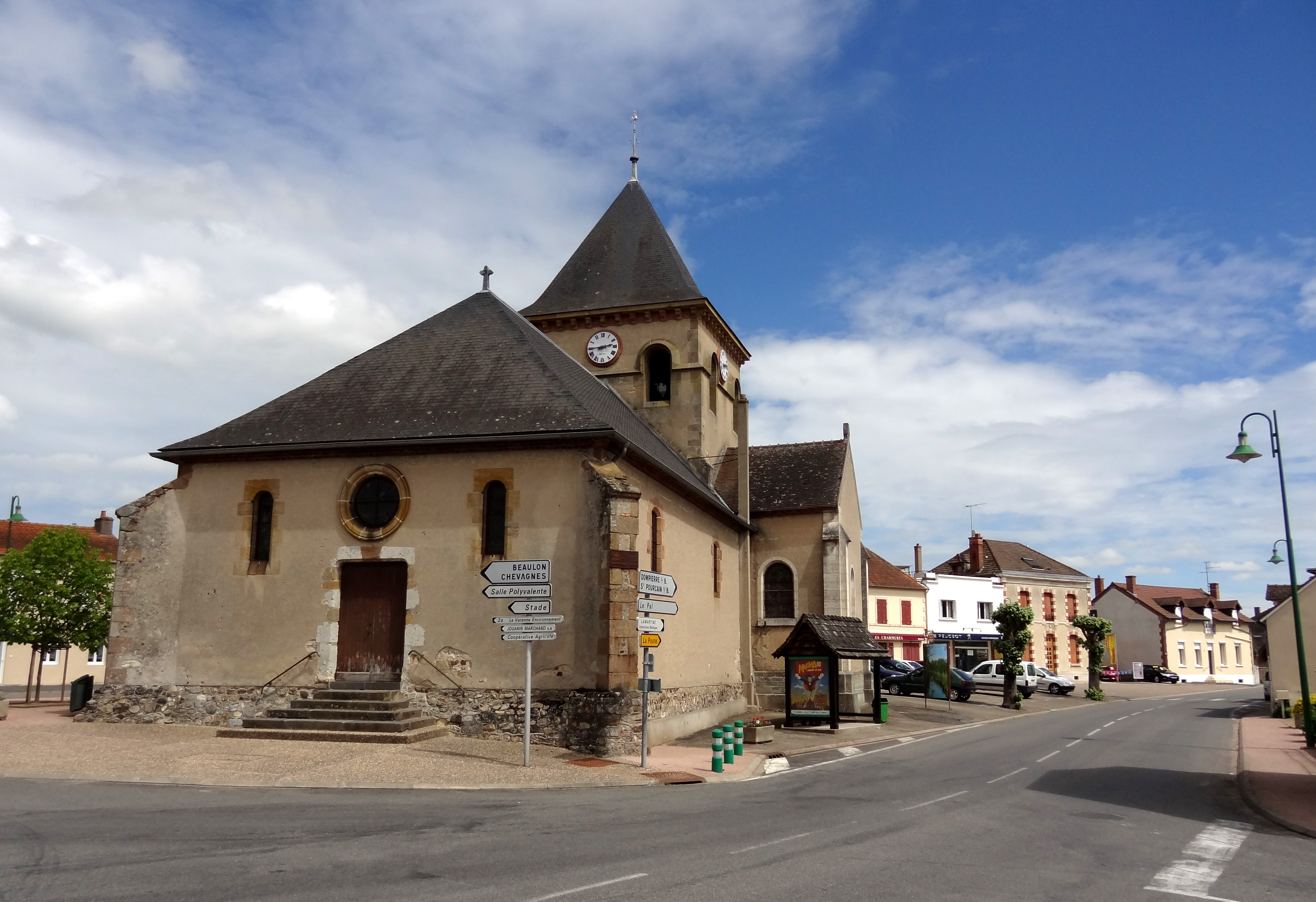 Saint-Martin church, Thiel-sur-Acolin, France